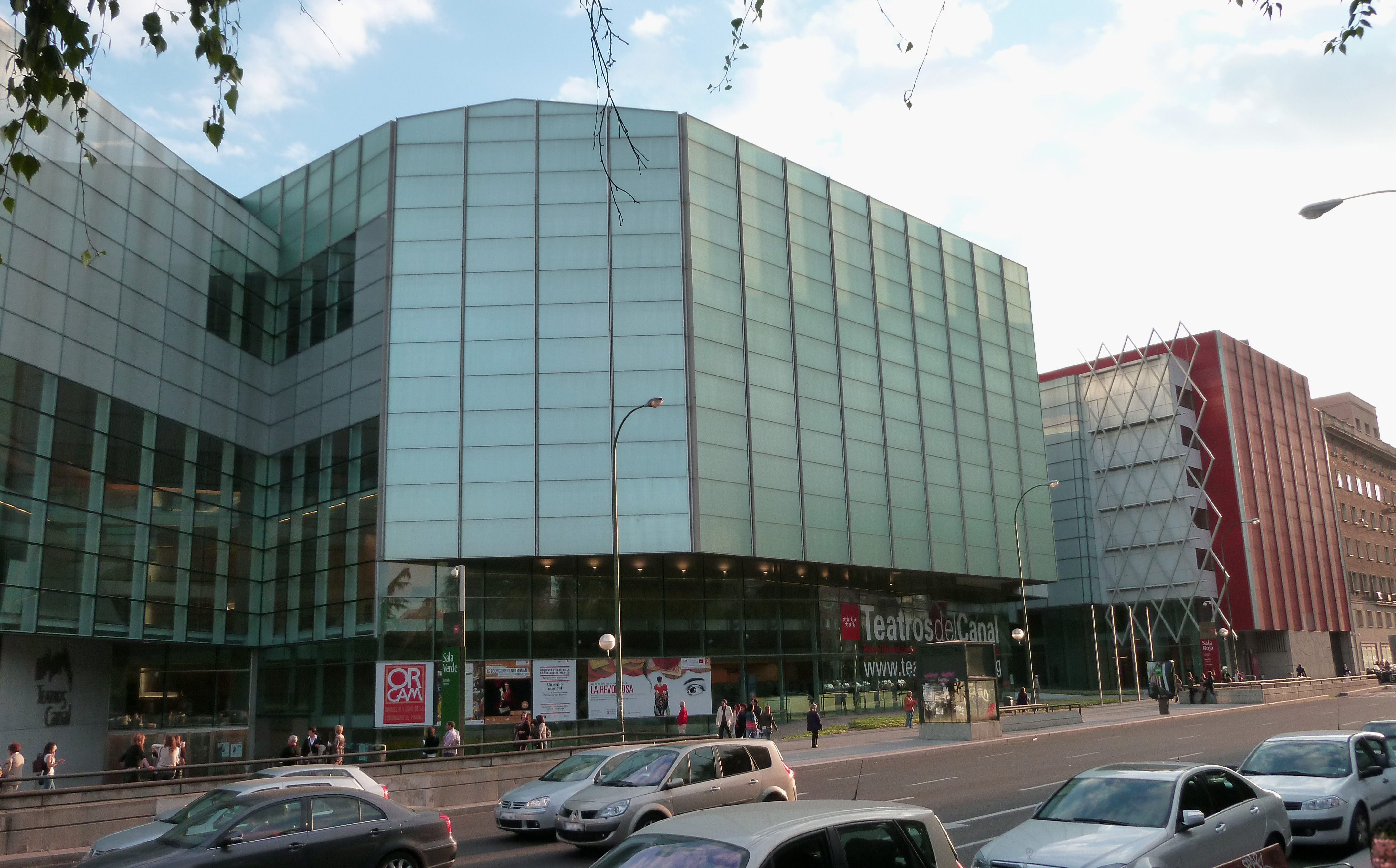 North façade of Teatros del Canal in Madrid (Spain).